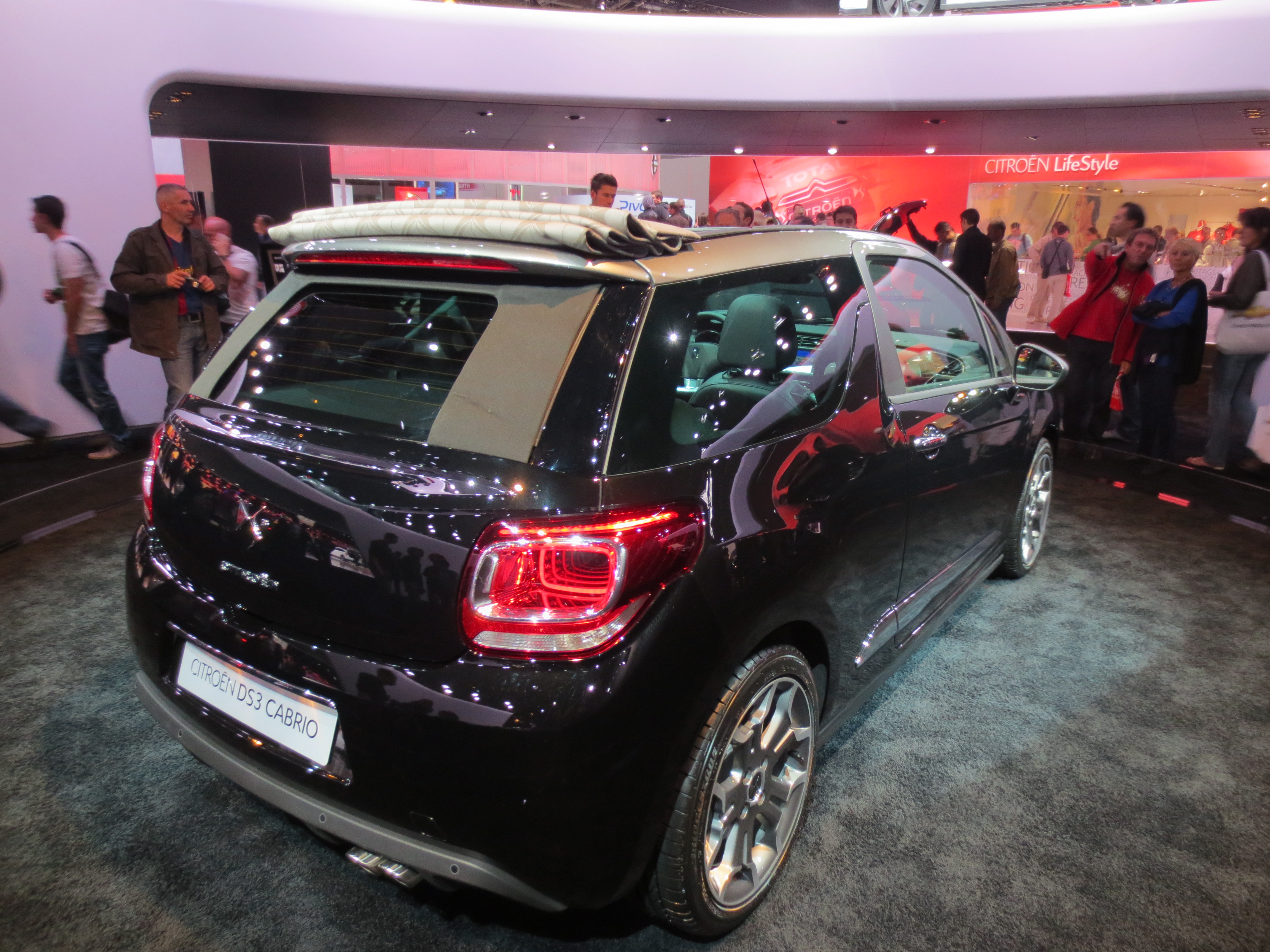 Subject: Citroën DS3 Cabrio Author: Luc106 Date:September 29th, 2012 Event: Salon de l'Automobile 2012 Place/Country: Parc des Expositions, Porte de Versailles, Paris (France) I release all rights in the public domain.